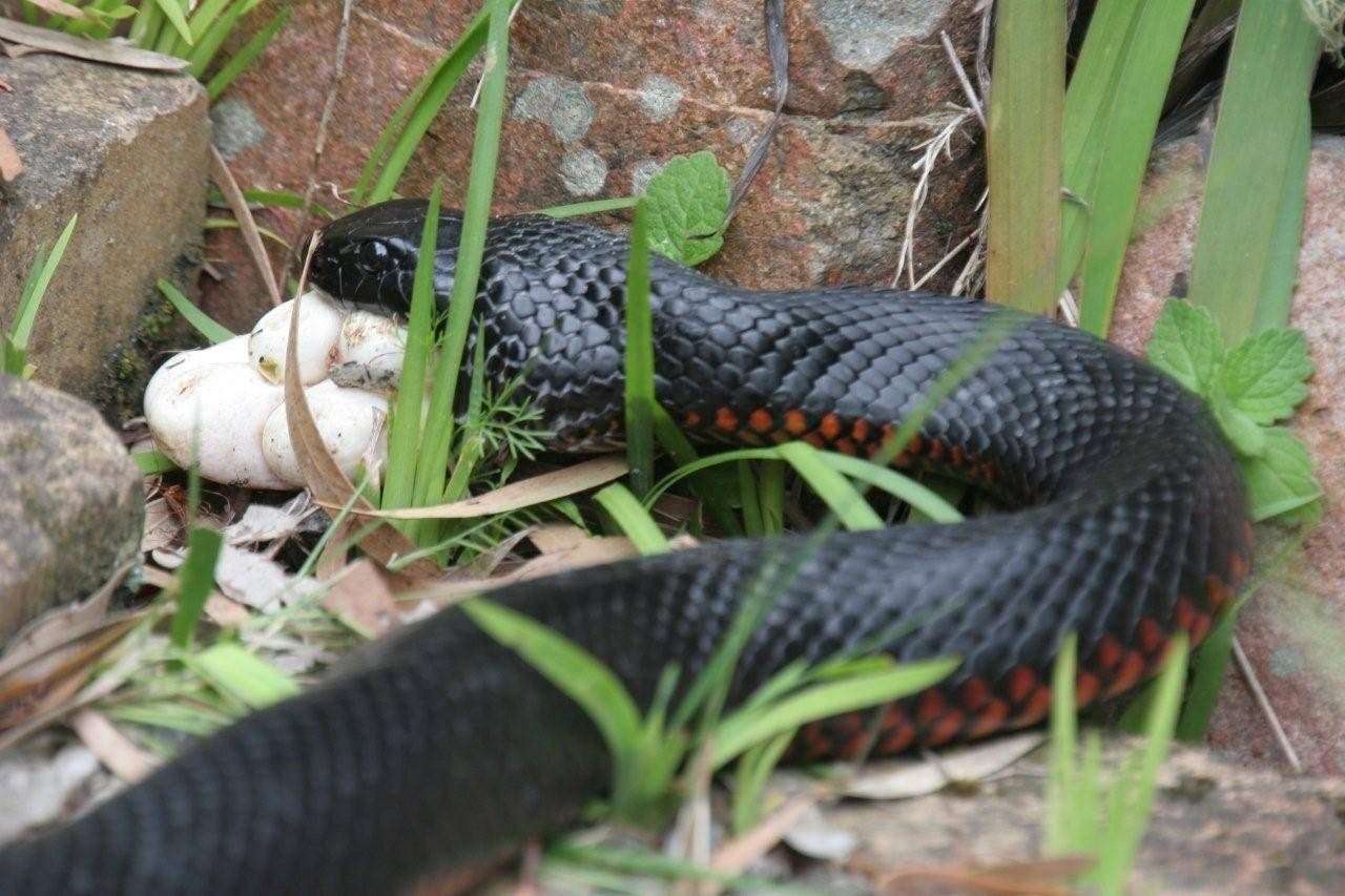 Pseudechis porphyriacus eating eggs of the green tree snake (Dendrelaphis punctulatus)